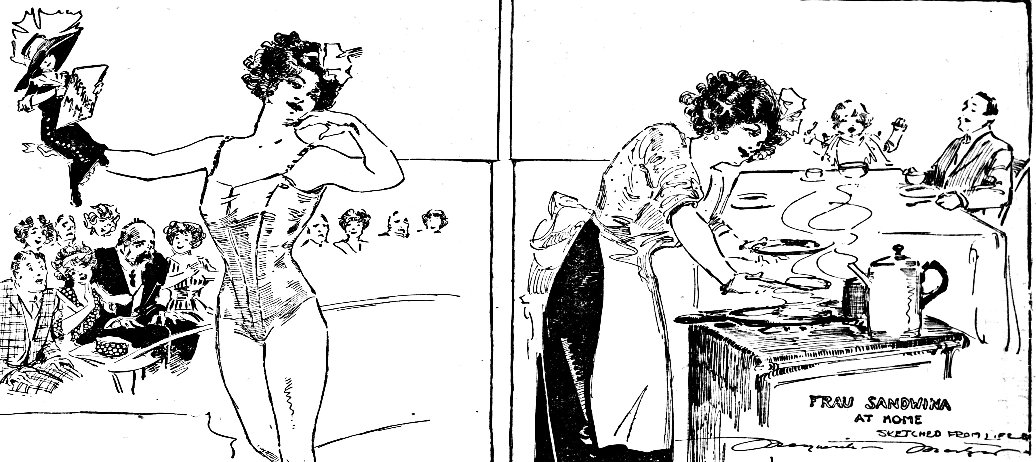 Detail of a double-panel sketch in the St. Louis Post-Dispatch of strongwoman Katie Sandwina, at left, hoisting reporter Marguerite Martyn in front of a circus crowd (this did not actually occur), and at right cooking dinner for her son and her husband. (This did occur.)